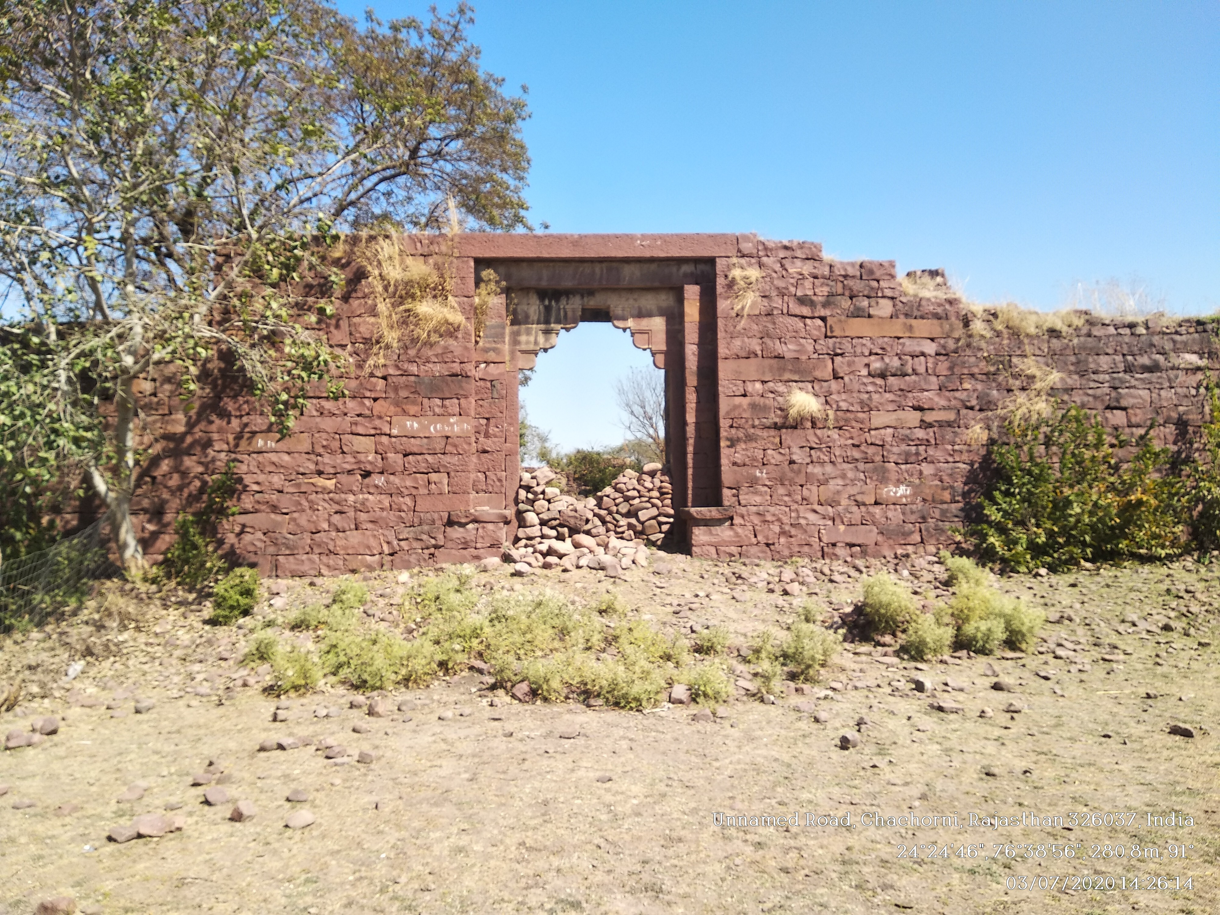 The Fort/Castle at the Confluence of Parvan and Nevaj River in Chachorni